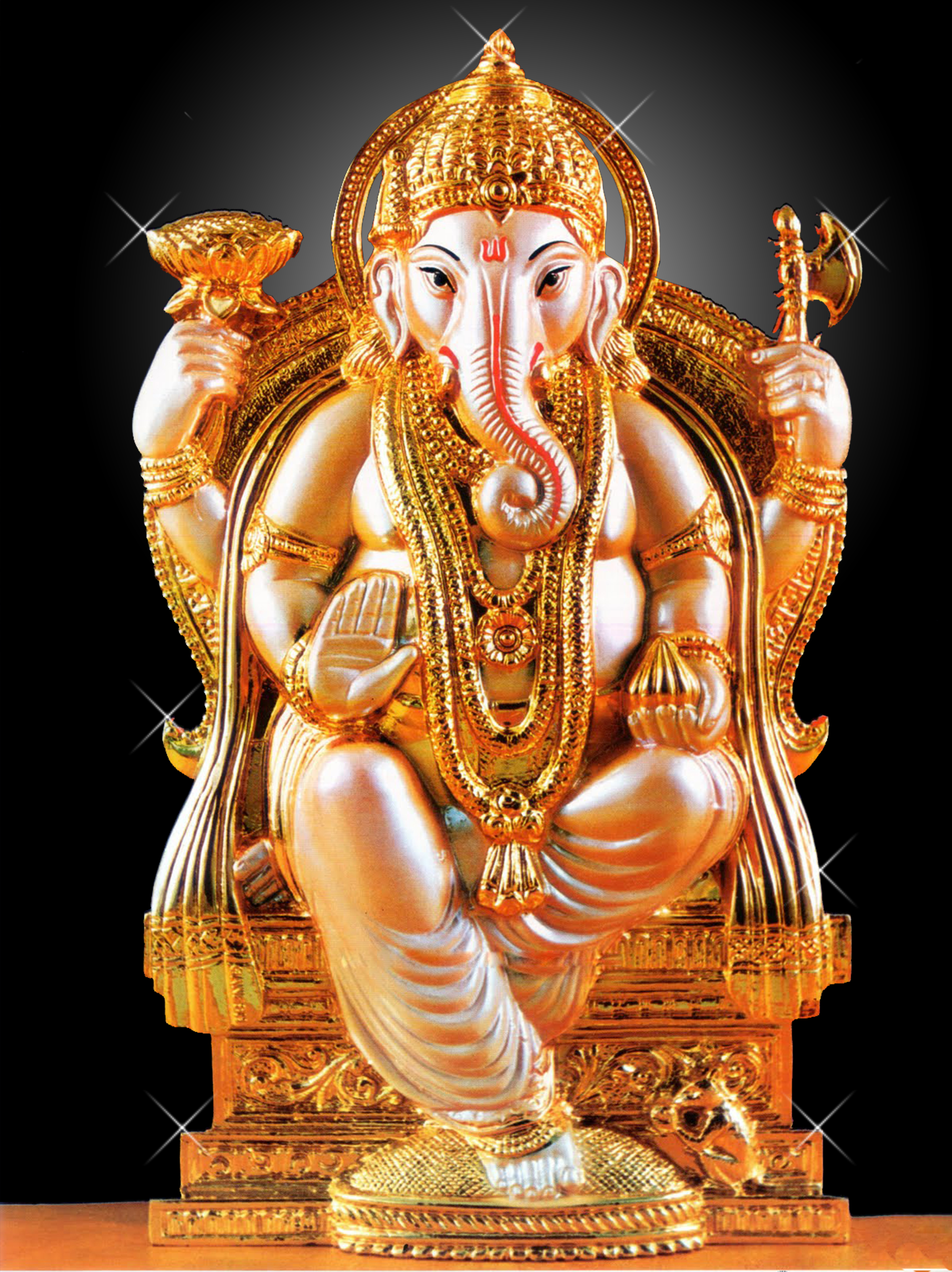 High Resolution Ganesh Frame Image.